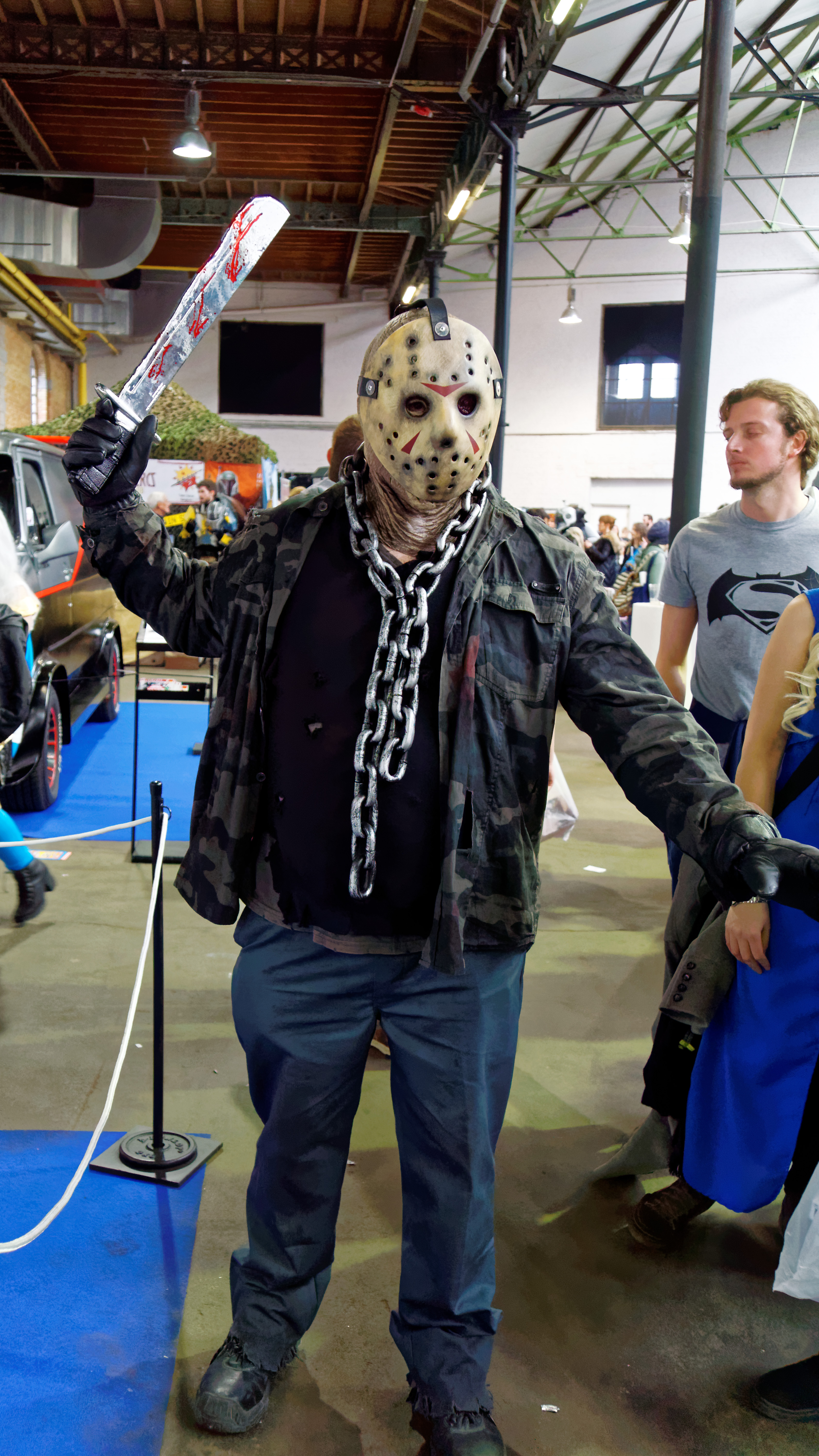 Cosplay at Comic Con Brussels 2016 (CCBX 2016).